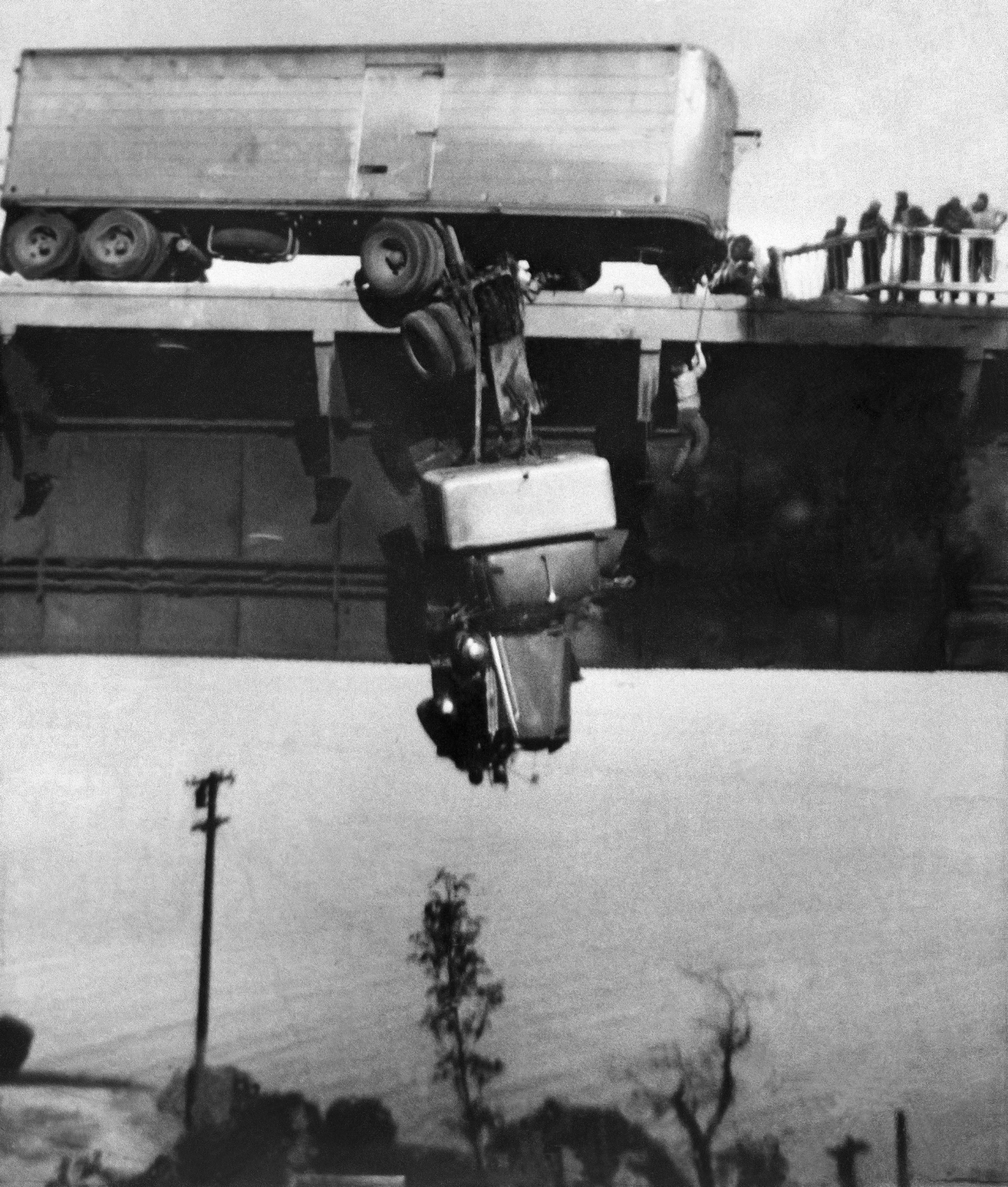 "Rescue on Pit River Bridge", photograph of two truckers being rescued after driving their truck over the railing of the Pit River Bridge. Winner of the 1954 Pulitzer Prize for Photography.